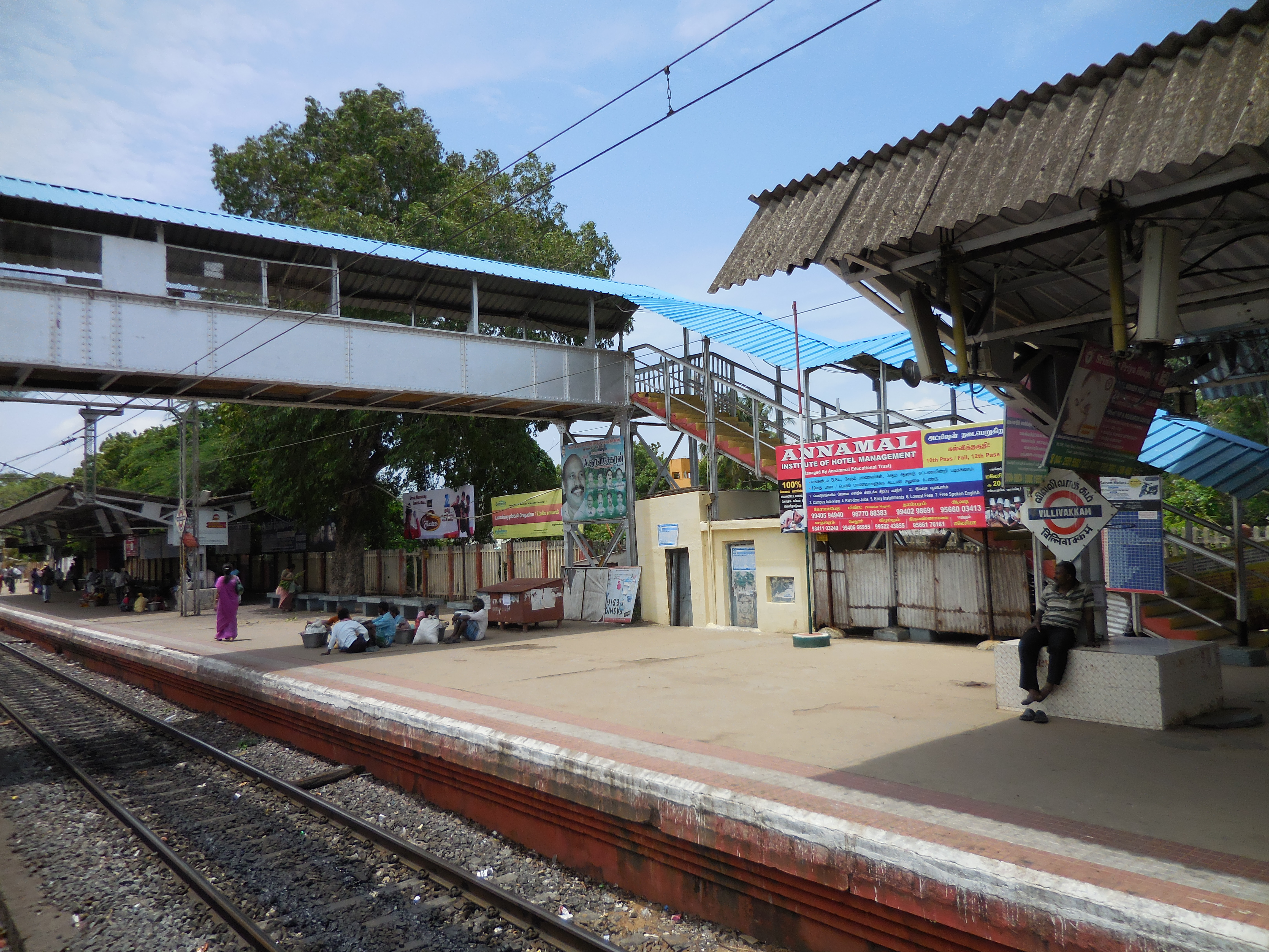 Footbridge at Villivakkam railway station, Chennai, taken on 15 July 2014 at noon.